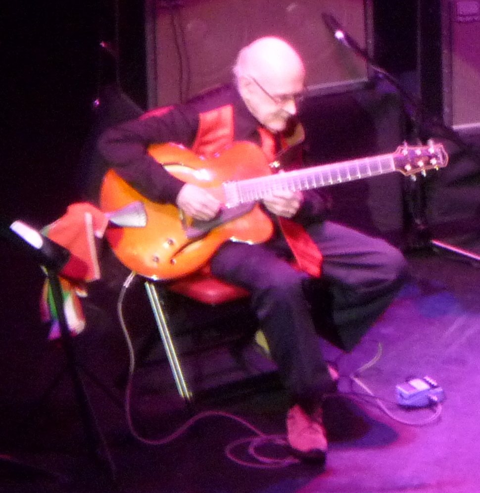 At Sonny Rollins' 80th birthday show at the Beacon Theater in New York City, Sept. 10, 2010.